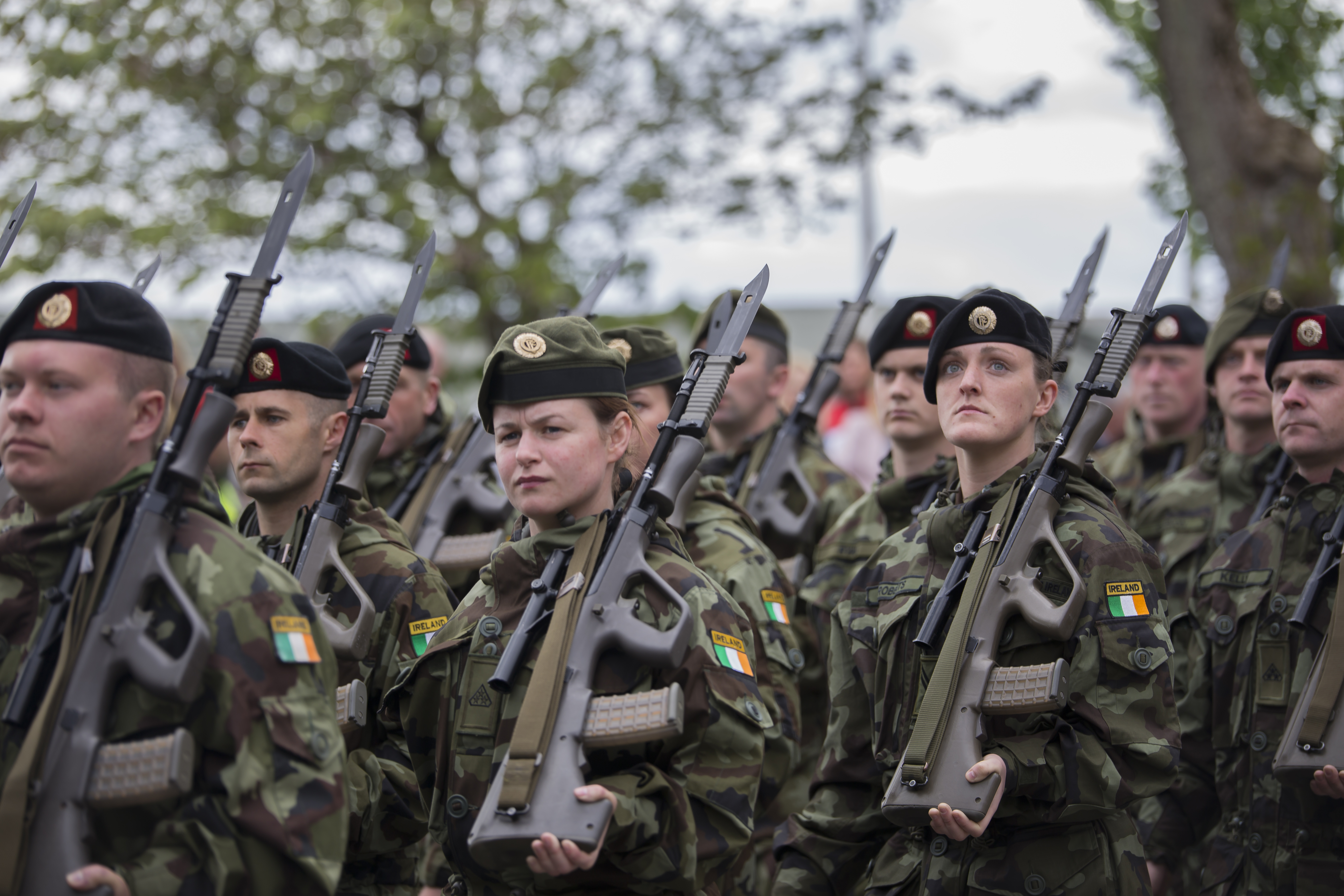 45 Inf Gp UNIFIL Ministerial Review Curragh Camp 018